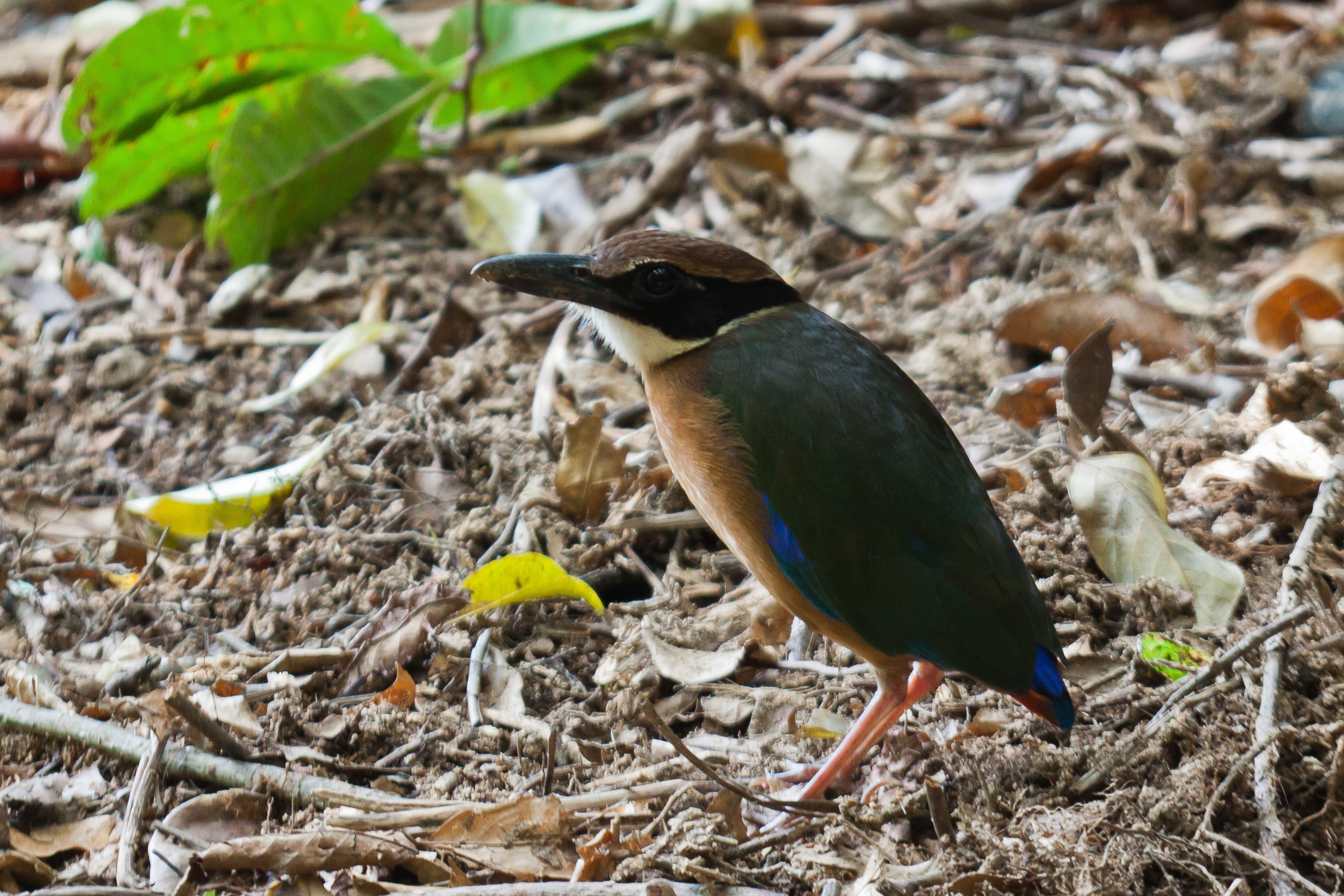 Pitta megarhyncha, Lower Peirce Reservoir, Singapore